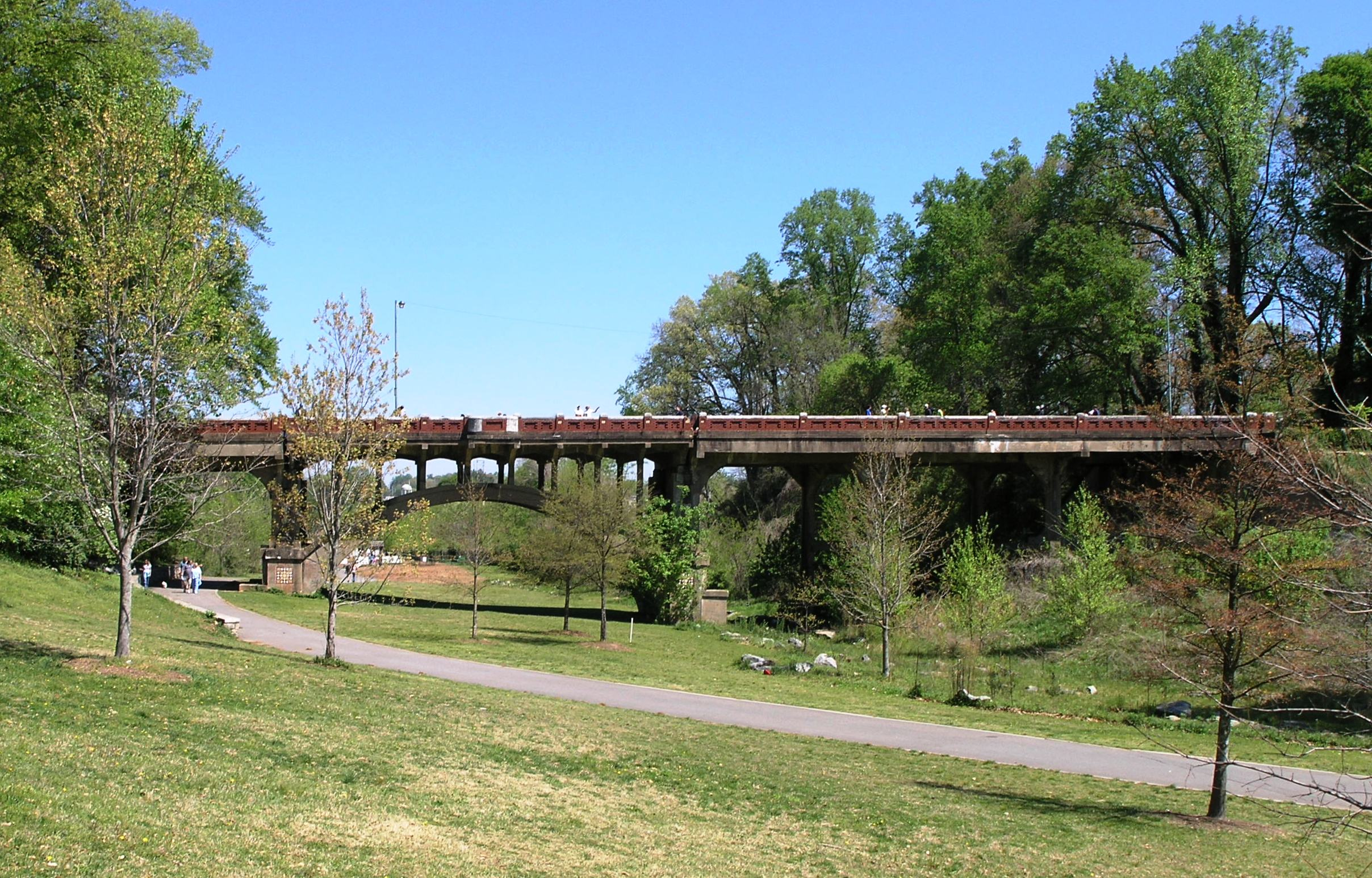 Photo taken in Atlanta area